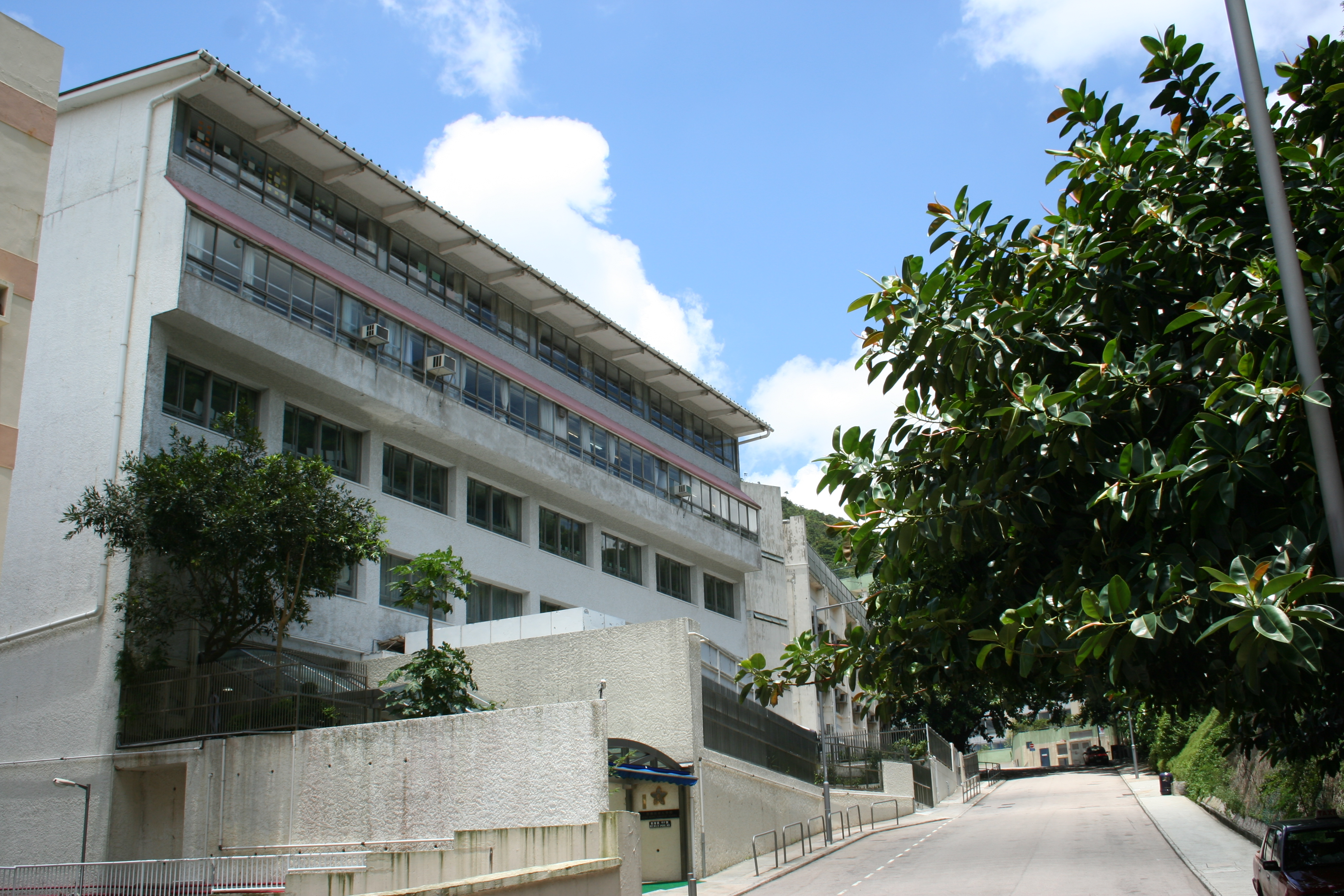 Hong Kong Japanese School Primary Section, in Blue Pool Road, Hong Kong Island, Hong Kong Special Administrative Region, People's Republic of China